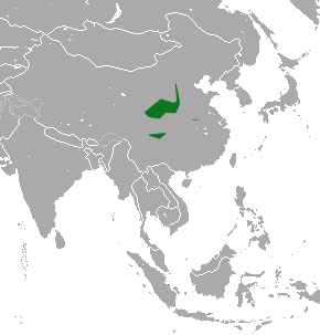 Hugh's Hedgehog (Mesechinus hughi) range